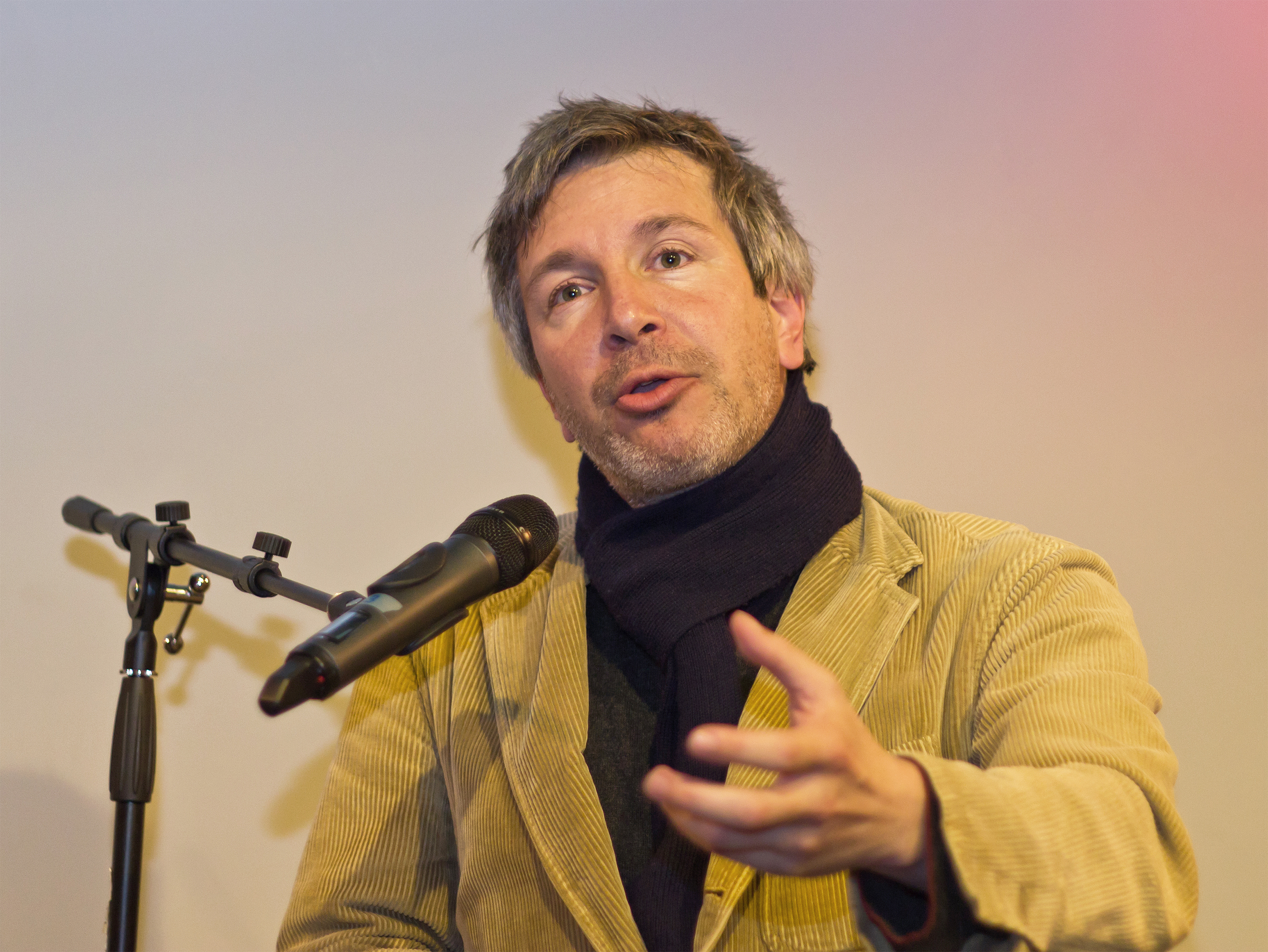 Éric Vuillard is an author and screenwriter from Lyon, France.